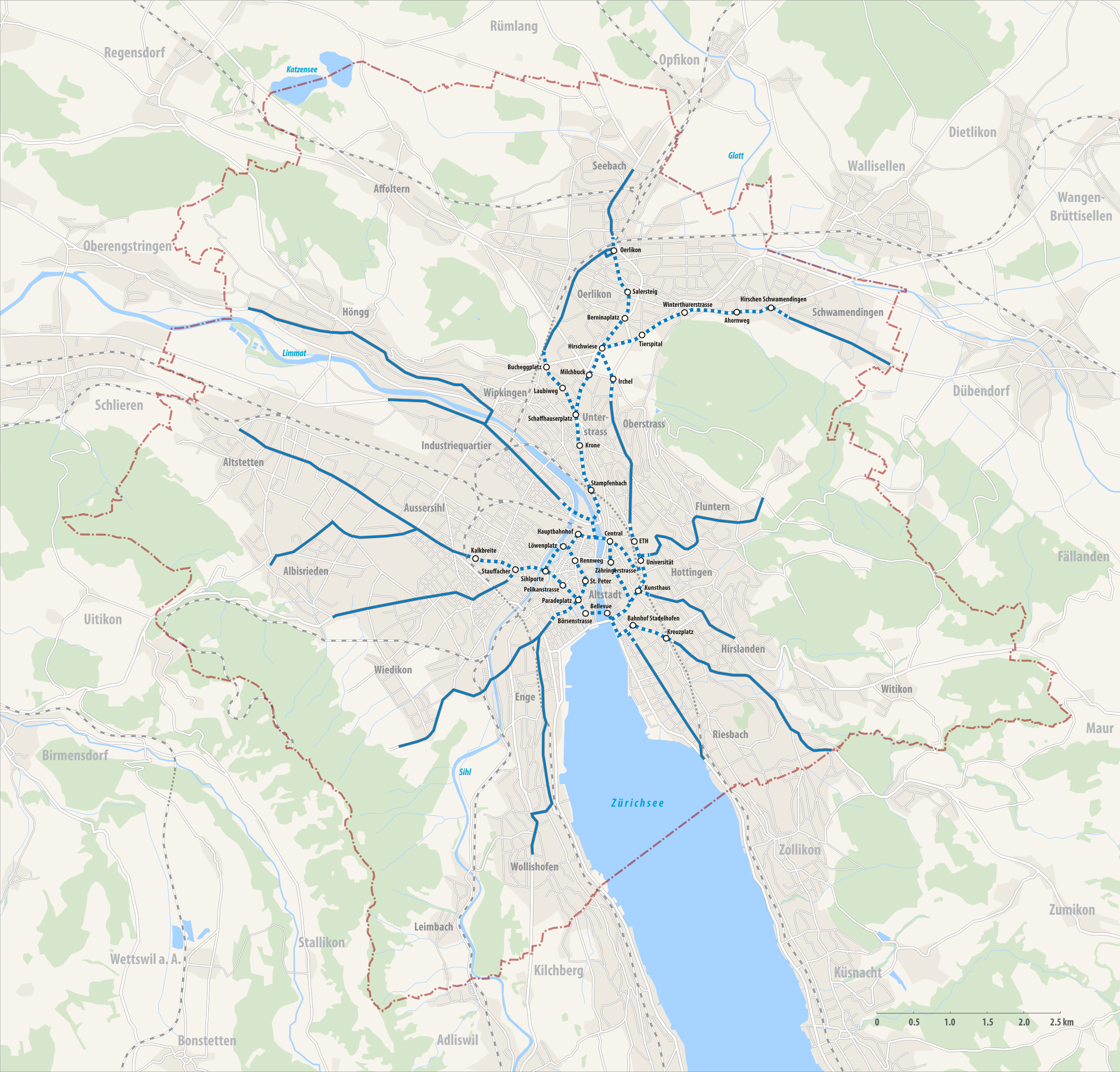 Subway project in Zurich (1962)